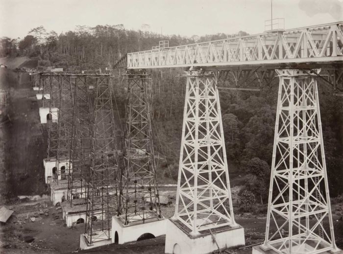 Railway bridge across the Cikubang river under construction